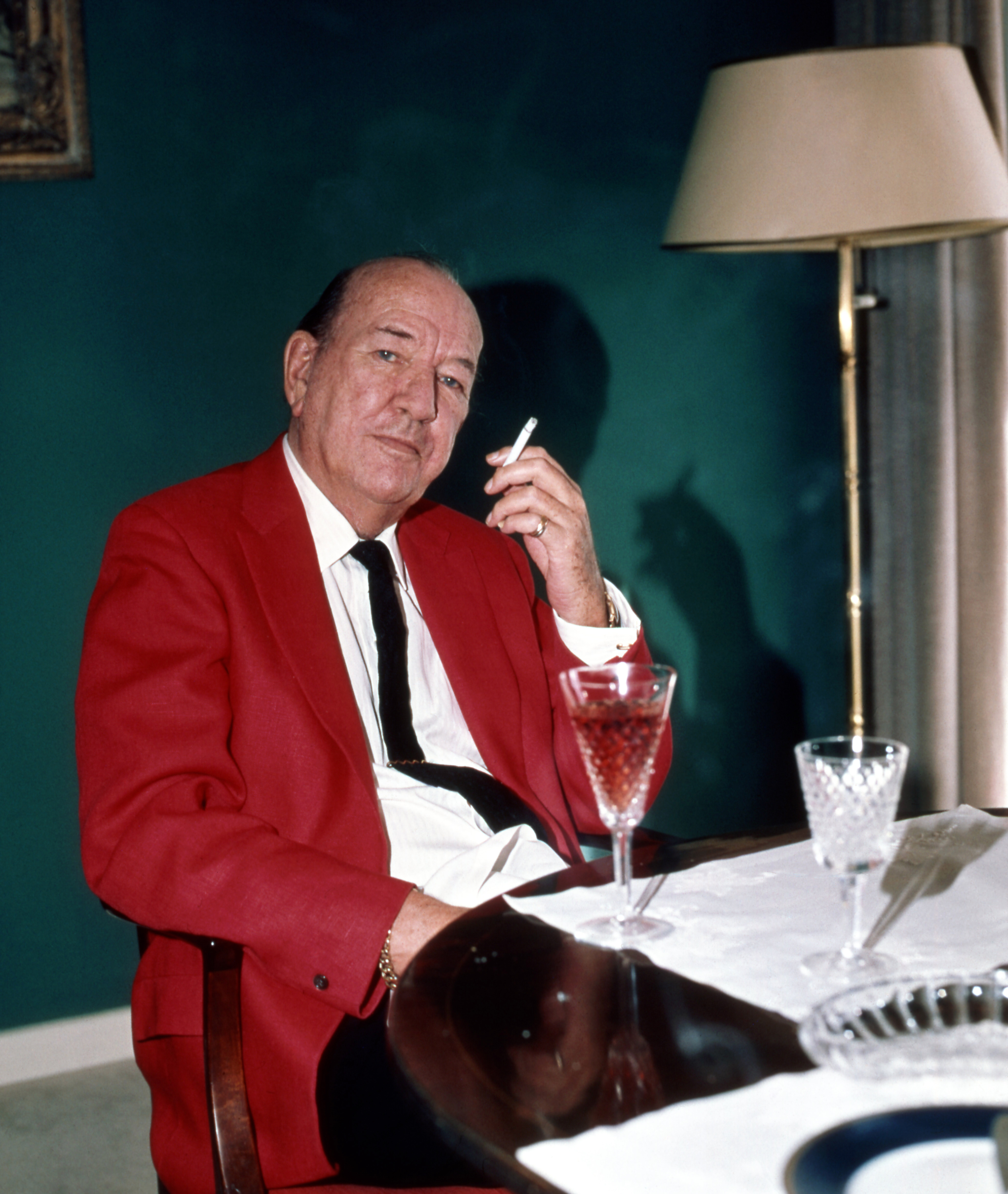 Sir Noel coward